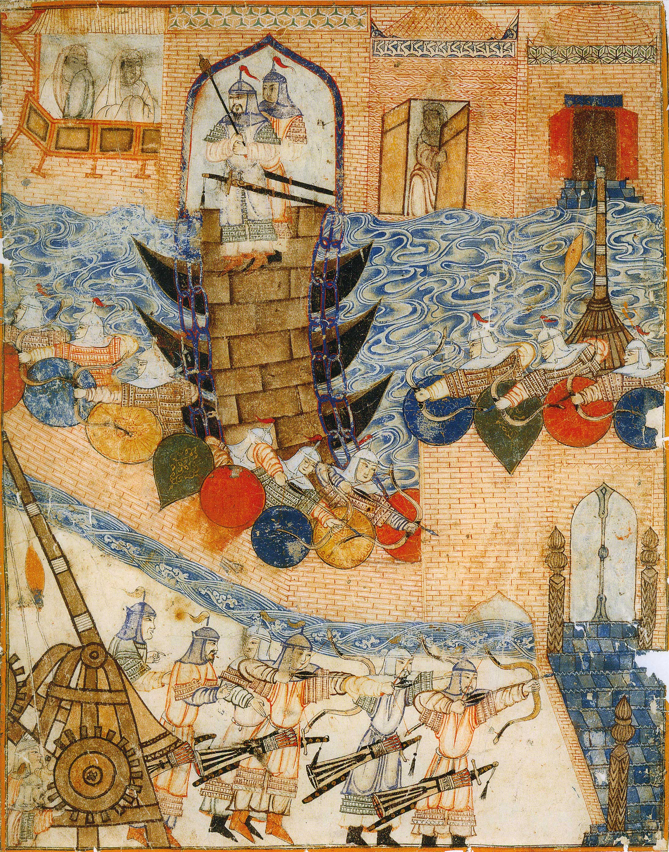 Conquest of Baghdad by the Mongols 1258. Left part of a double-page illustration of Rashid-ad-Din's Gami' at-tawarih. Tabriz (?), 1st quarter of 14th century. Water colours and gold on paper. Original size: 37.2 cm x 29 cm. Staatsbibliothek Berlin, Orientabteilung, Diez A fol. 70, p. 7. Note the ponton bridge and siege engines. For the complete illustration, see Image:DiezAlbumsFallOfBaghdad.jpg.